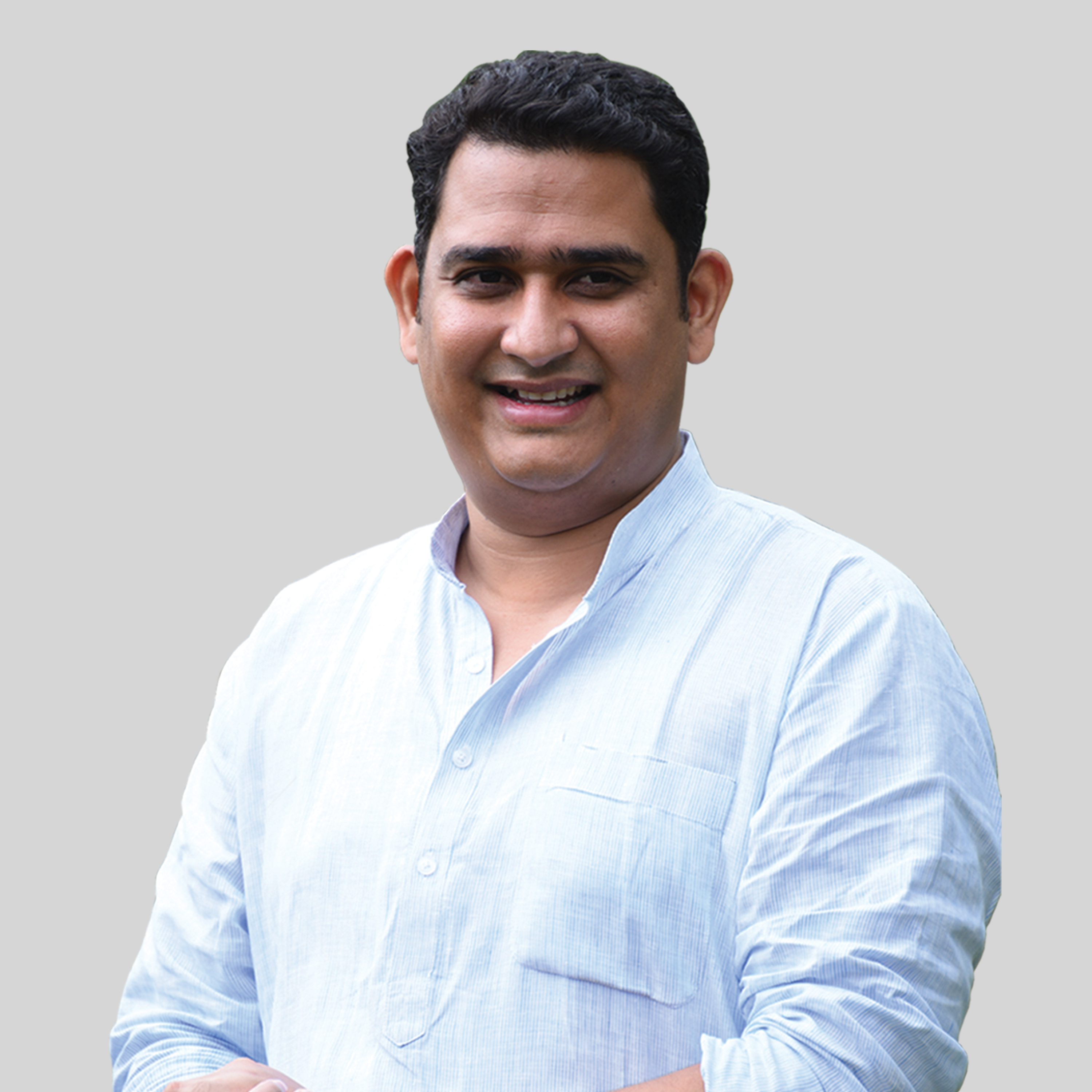 Ashutosh Kale, MLA Maharashtra State Assembly (Kopargaon)